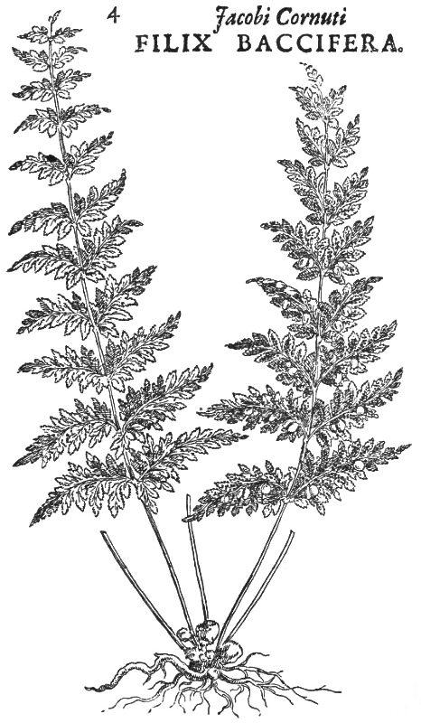 IIllustration for the article THE PROGRESS OF OUR KNOWLEDGE OF THE FLORA OF NORTH AMERICA by Lucien Marcus Underwood in Popular Science Monthly, catpioned: "Fig. 4 Fac-simile of illustration by Jacques-Philippe Cornut (1635) of the bulb-bearing fern (Filix bulbifera). This with a plate of the common maidenhair in the same work formed the first published illustrations of American ferns.